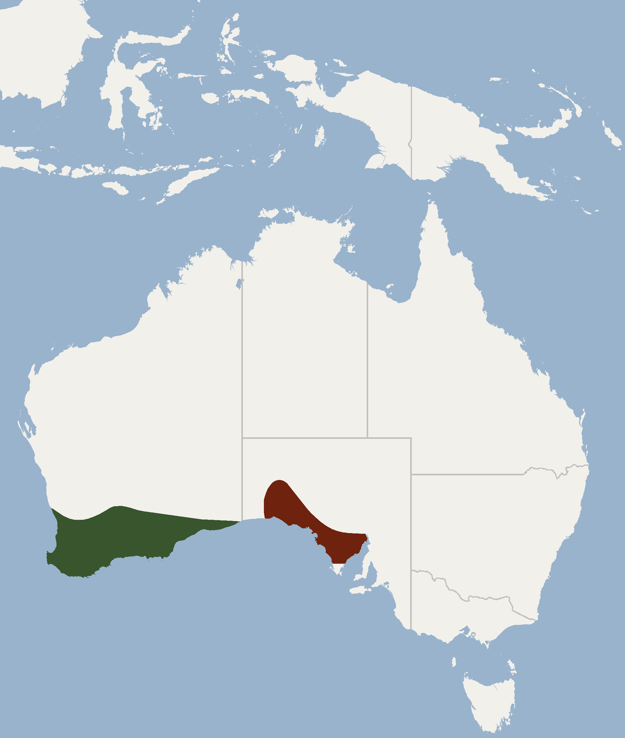 According to Menkhorst & Knight, 2001